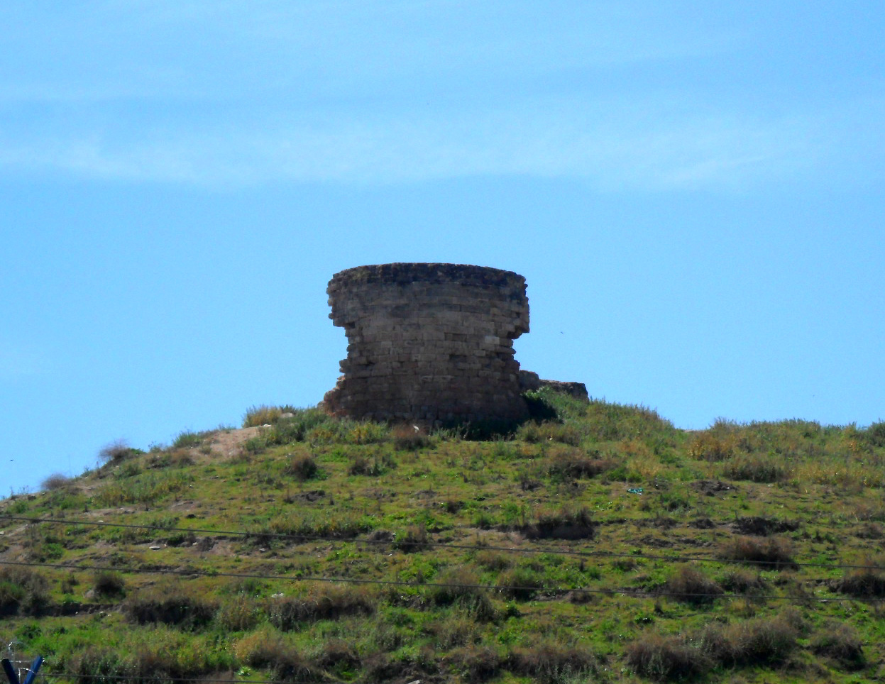 Ruins of an ancient castle in Tırmıl, Mersin